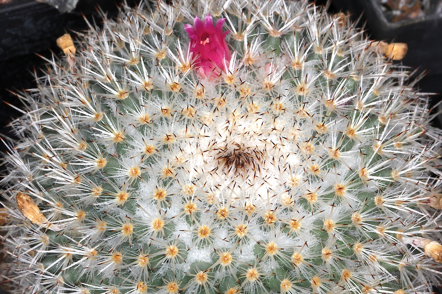 Mammillaria albilanata ssp. oaxacana